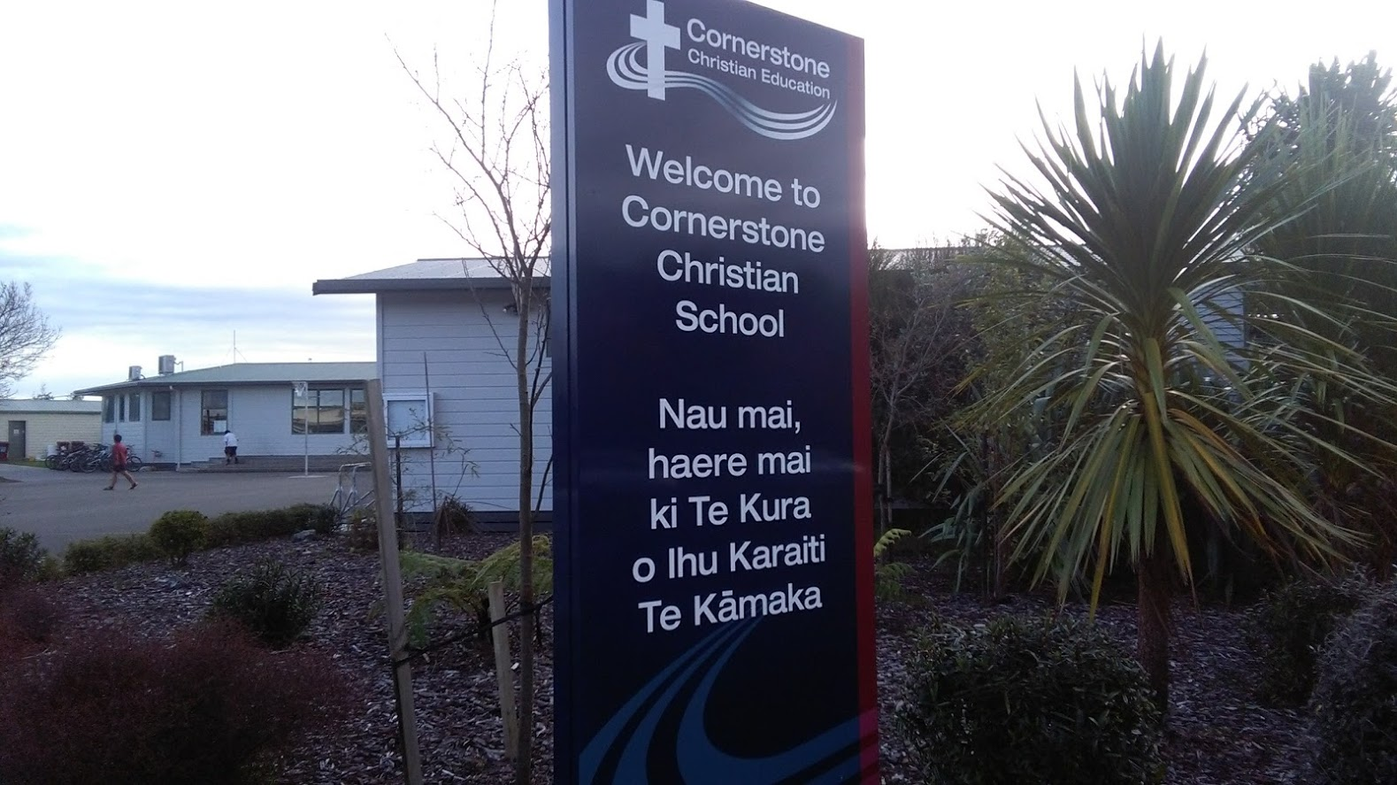 Entrance sign, with Maori translation: "Welcome to Cornerstone Christian School Nau mai haere mai ki Te Kura o Ihu Karaiti Te Kamaka"